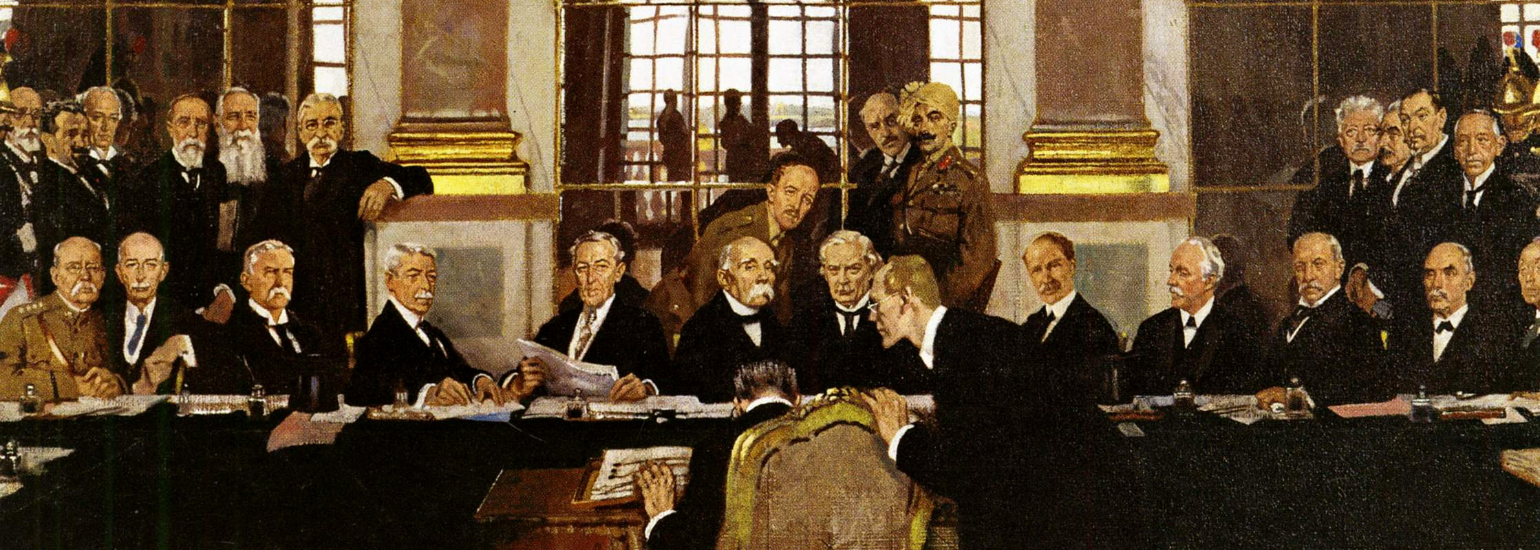 A view of the interior of the Hall of Mirrors at Versailles, with the heads of state sitting and standing before a long table. Front Row: Dr Johannes Bell (Germany) signing with Herr Hermann Muller leaning over him. Middle row (seated, left to right): General Tasker H Bliss, Col E M House, Mr Henry White, Mr Robert Lansing, President Woodrow Wilson (United States); M Georges Clemenceau (France); Mr D Lloyd George, Mr A Bonar Law, Mr Arthur J Balfour, Viscount Milner, Mr G N Barnes (Great Britain); The Marquis Saionzi (Japan). Back row (left to right): M Eleutherios Venizelos (Greece); Dr Affonso Costa (Portugal); Lord Riddell (British Press); Sir George E Foster (Canada); M Nikola Pachitch (Serbia); M Stephen Pichon (France); Col Sir Maurice Hankey, Mr Edwin S Montagu (Great Britain); the Maharajah of Bikaner (India); Signor Vittorio Emanuele Orlando (Italy); M Paul Hymans (Belgium); General Louis Botha (South Africa); Mr W M Hughes (Australia). Note: This description was copied verbatim from the Imperial War Museum exhibit, where some names differ from their official spelling (Muller vs Müller, Eleutherios vs Eleftherios, Affonso vs Afonso, Saionzi vs Saionji, Patchitch vs Pašić, Stephen vs Stéphen). We keep the original text for historical accuracy.